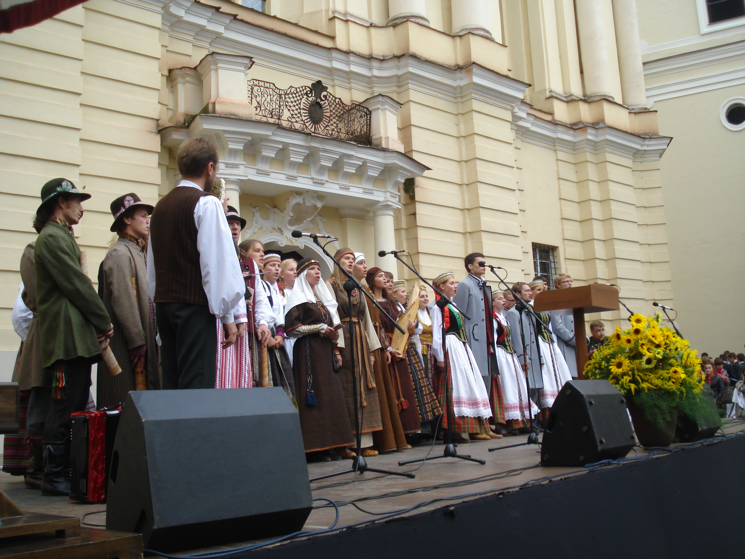 Lithuanian folk music and dance ensemble Ratilio featuring National anthem of Lithuania during Initio SemetsriLietuvių: Vilniaus universiteto folkloro ansamblis „Ratilio“ atlieka Tautišką giesmę mokslo metų pradžios šventėje Vilniaus universitets